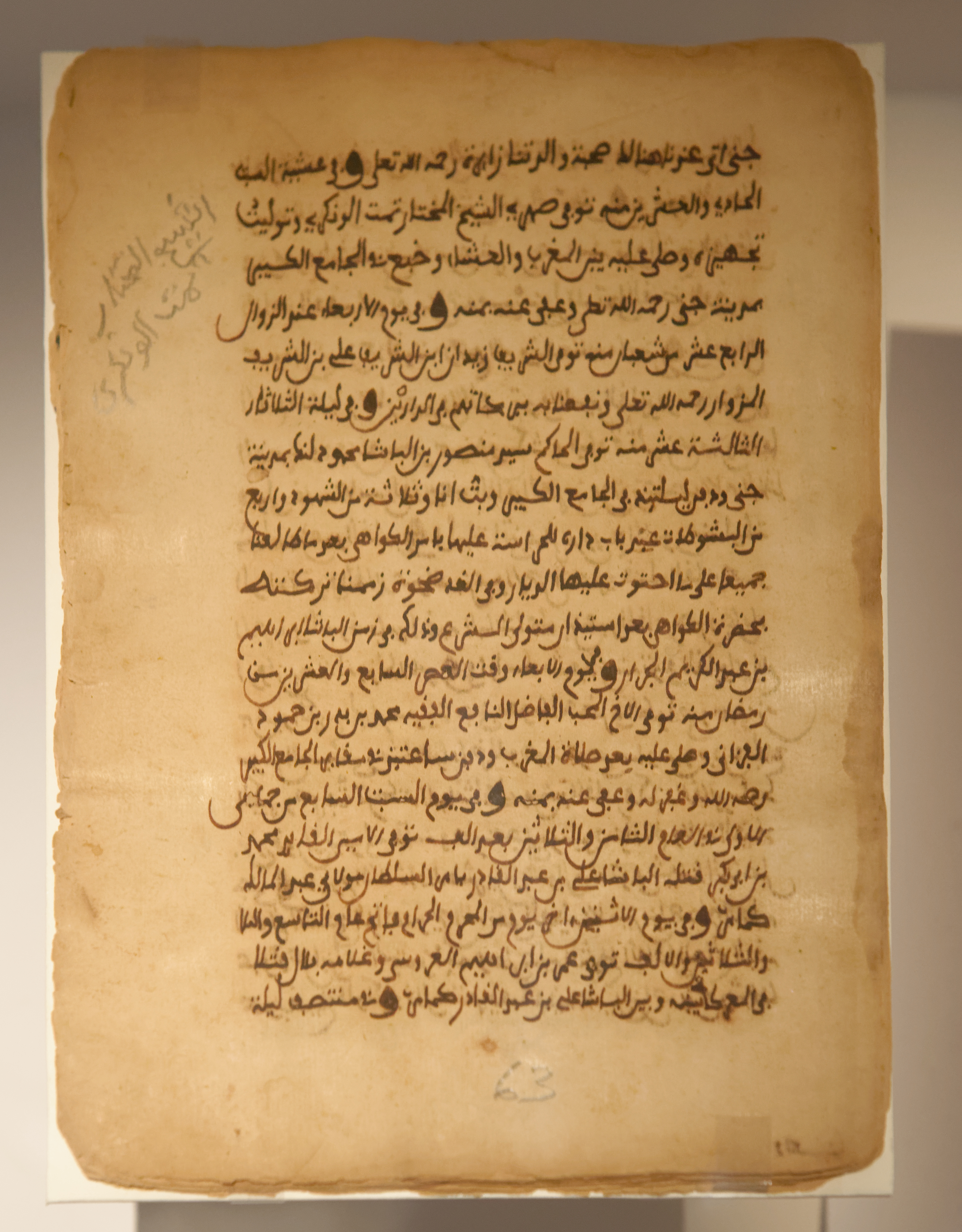 Folio from the Taʾrīkh al-fattāsh, a chronicle of the Songhai Empire, by Mahmud Kati.